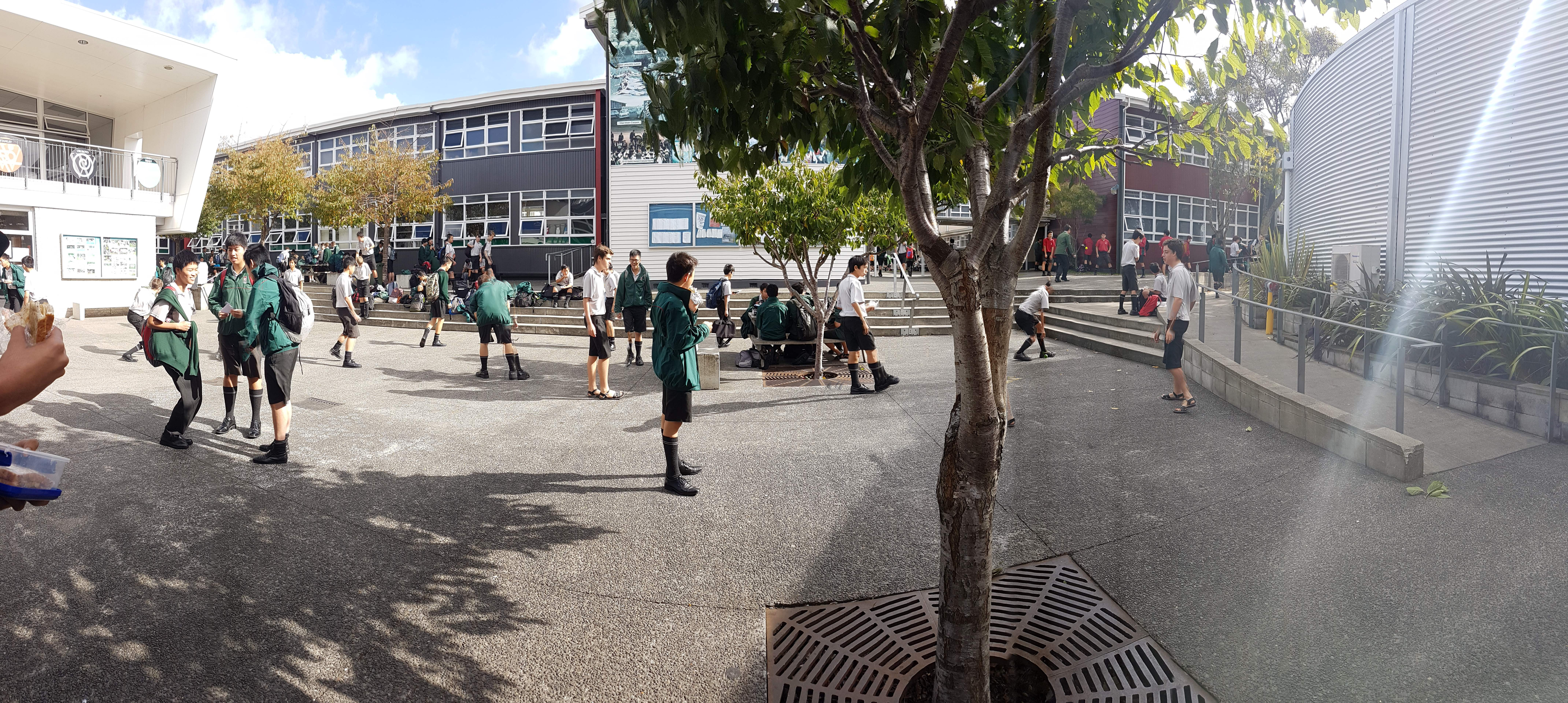 Area of the school known as the quad, during morning tea students have their food here